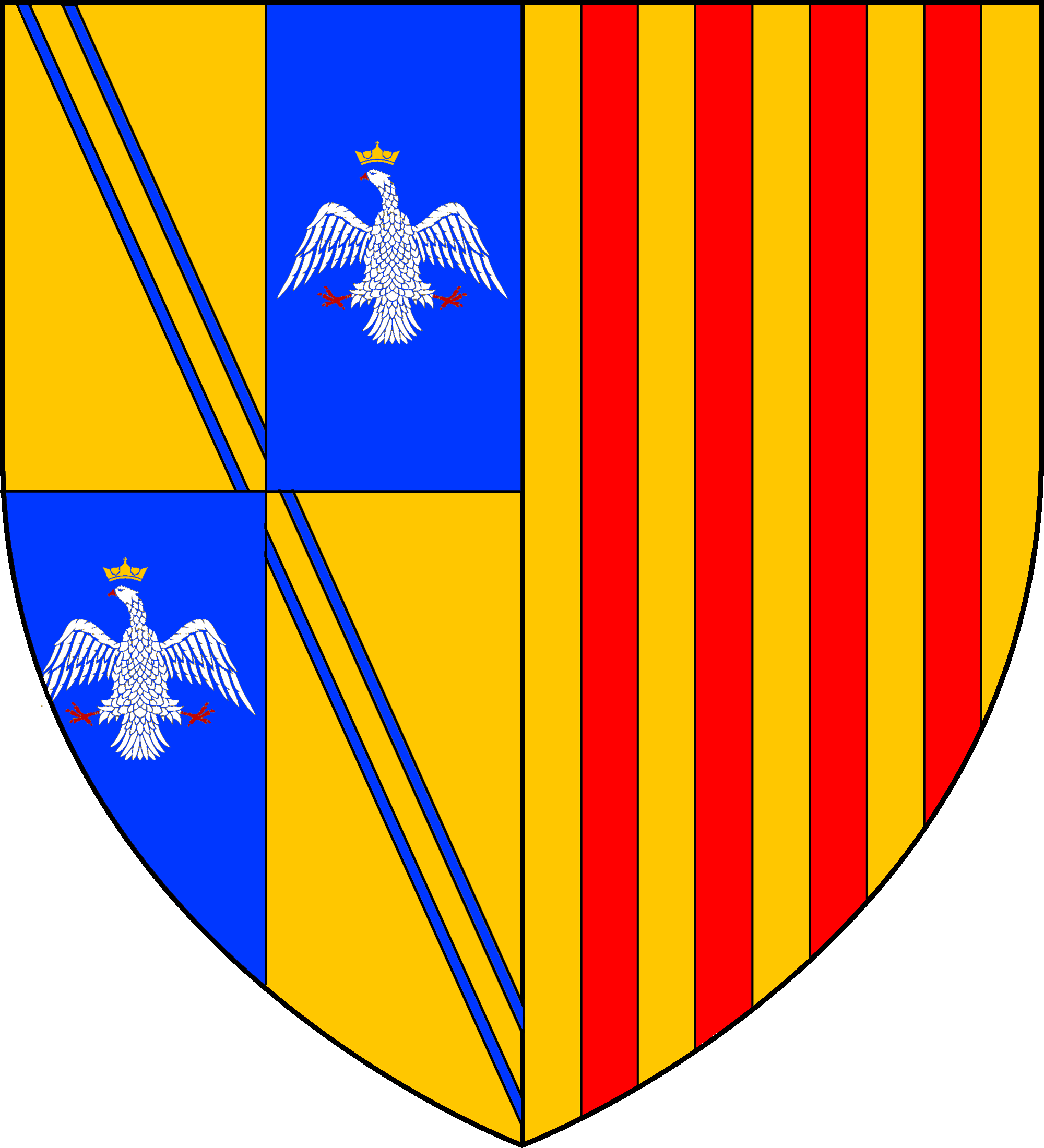 Escudo de armas de la casa de Gaetani (Stemma dei Gaetani)